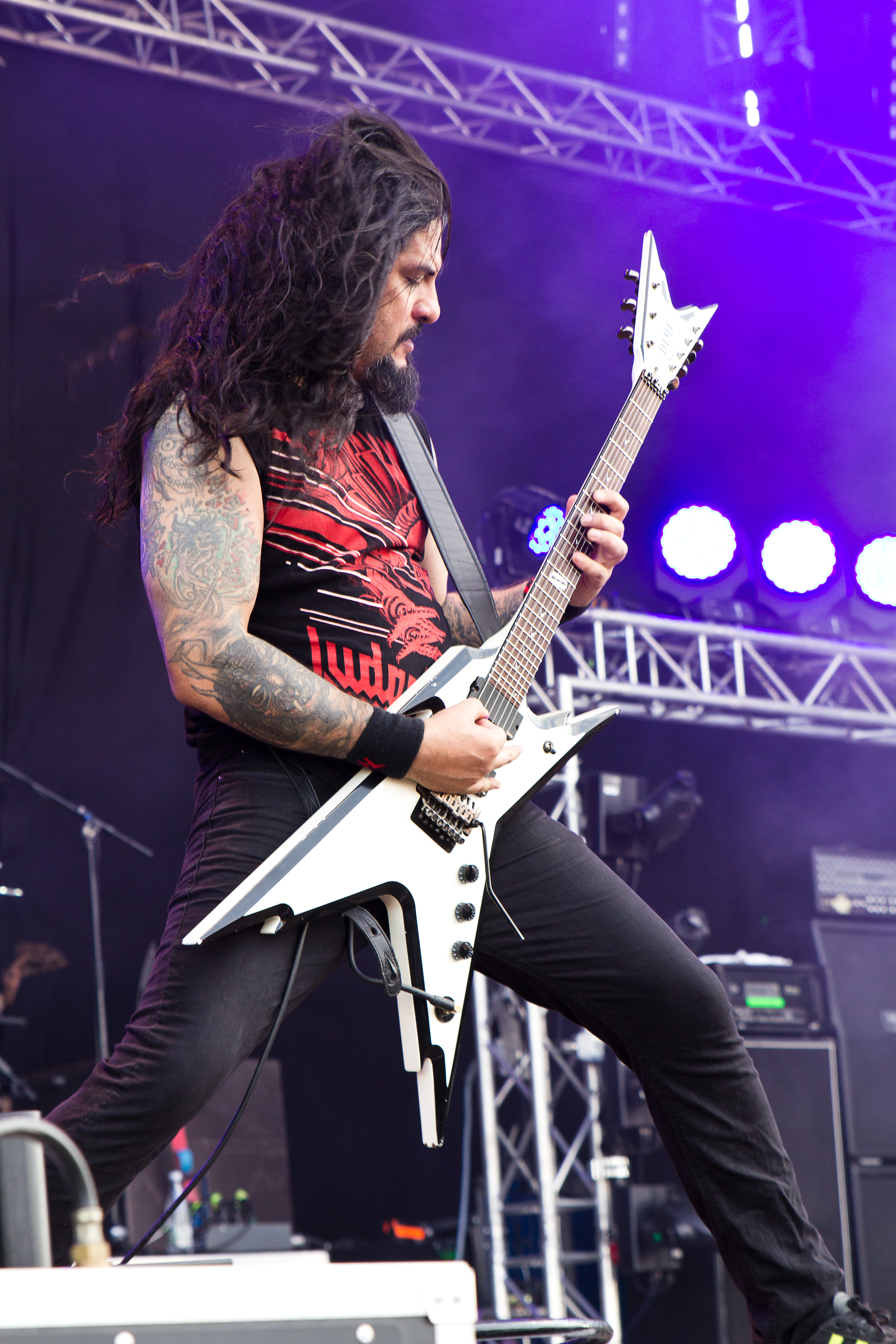 The Brasilian death metal band Krisiun at the Party.San Open Air 2015 in Obermehler-Schlotheim/Germany.